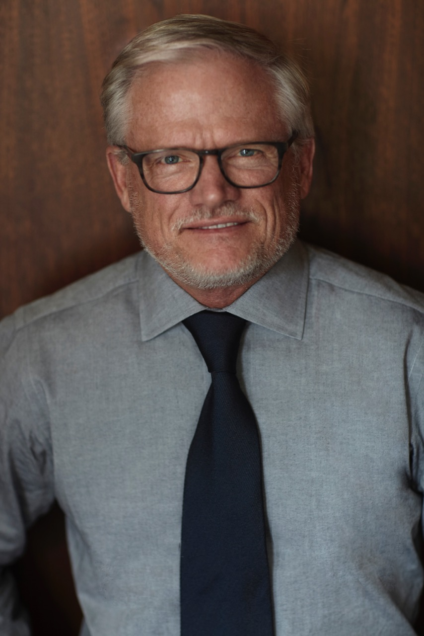 Portrait of Philip Monaghan taken July 2015